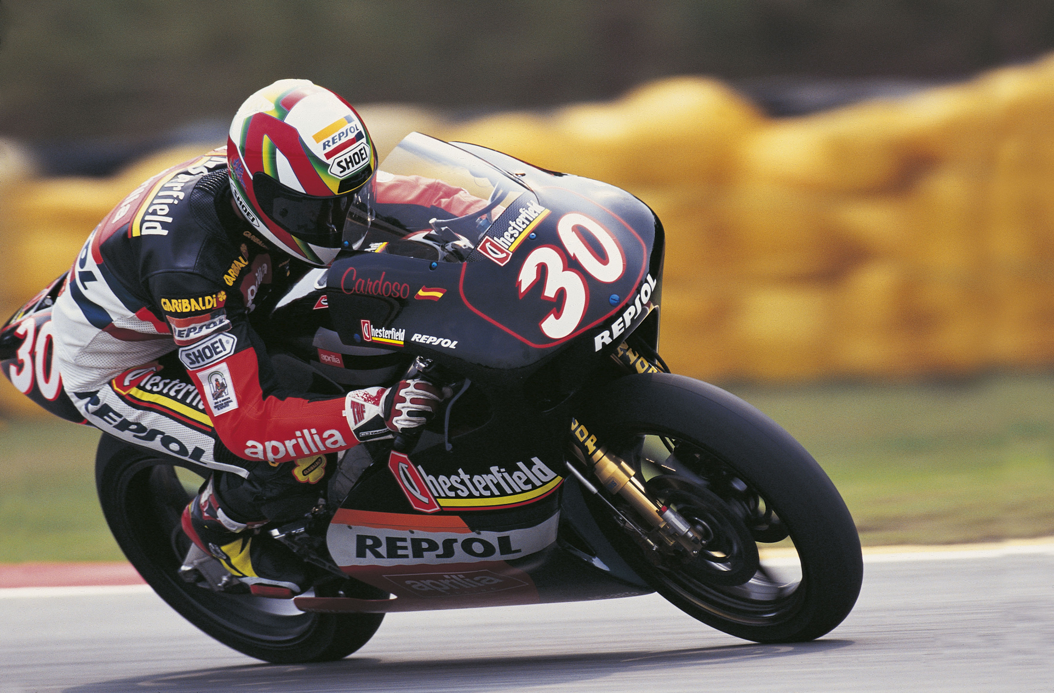 José Luis Cardoso, riding his Chesterfield Aprilia at the 1996 Malaysian Grand Prix.